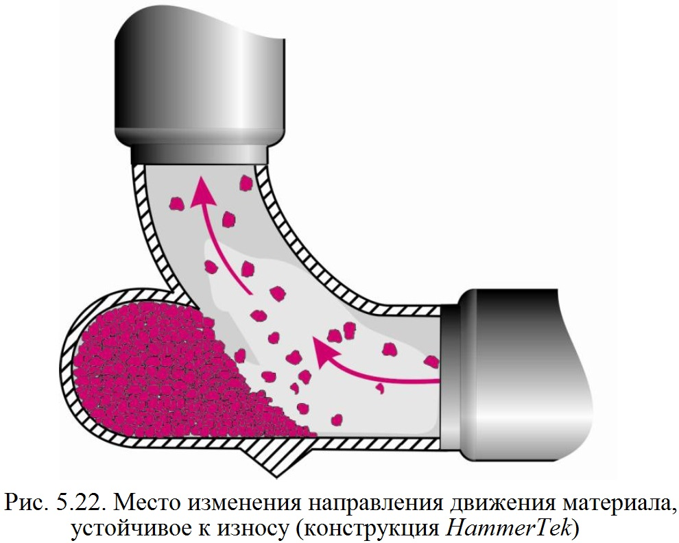 Figure 5.22. HammerTek wear-resistant elbow installed in conveying ductwork.